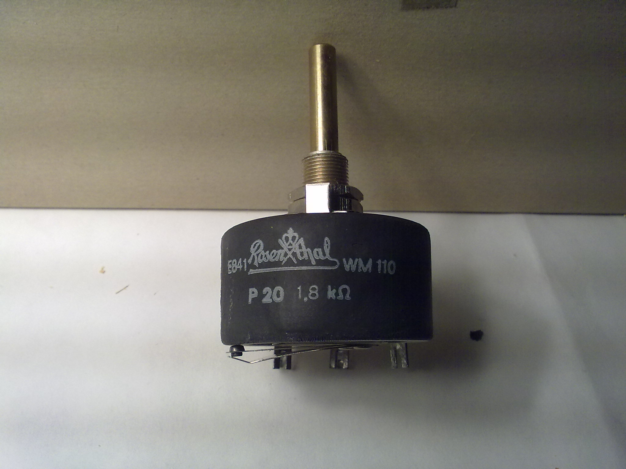 Rosenthal potentiometer 1.8 kOhm.